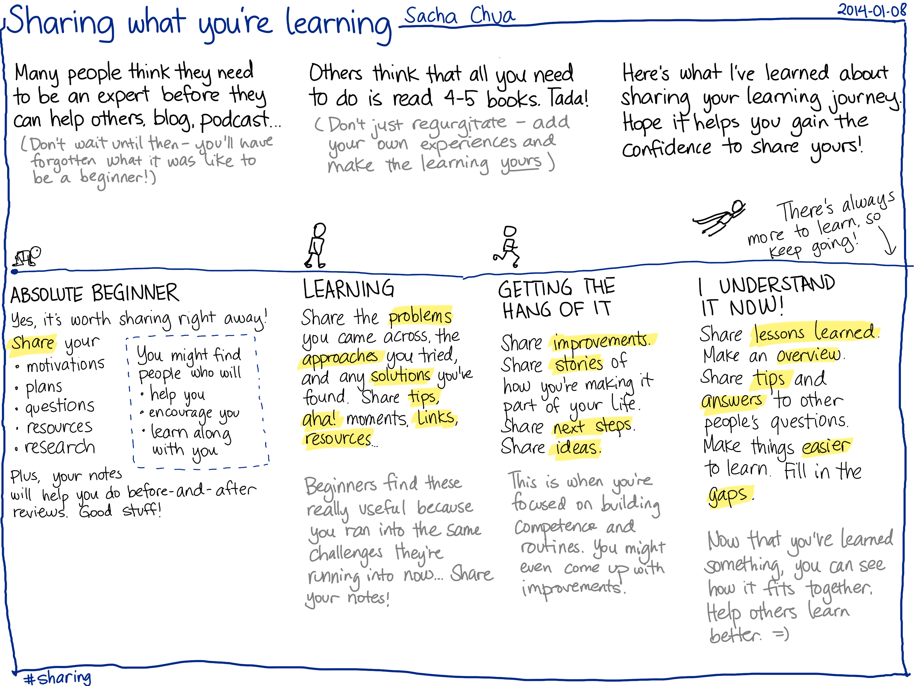 Sharing what you're learning.